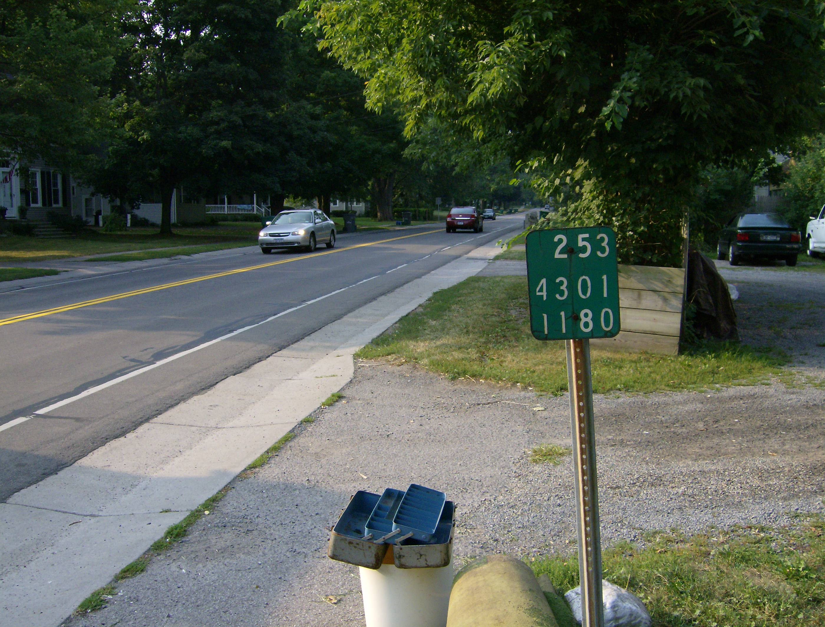 Old New York State Route 253 reference marker on Five Mile Line Road in Penfield.